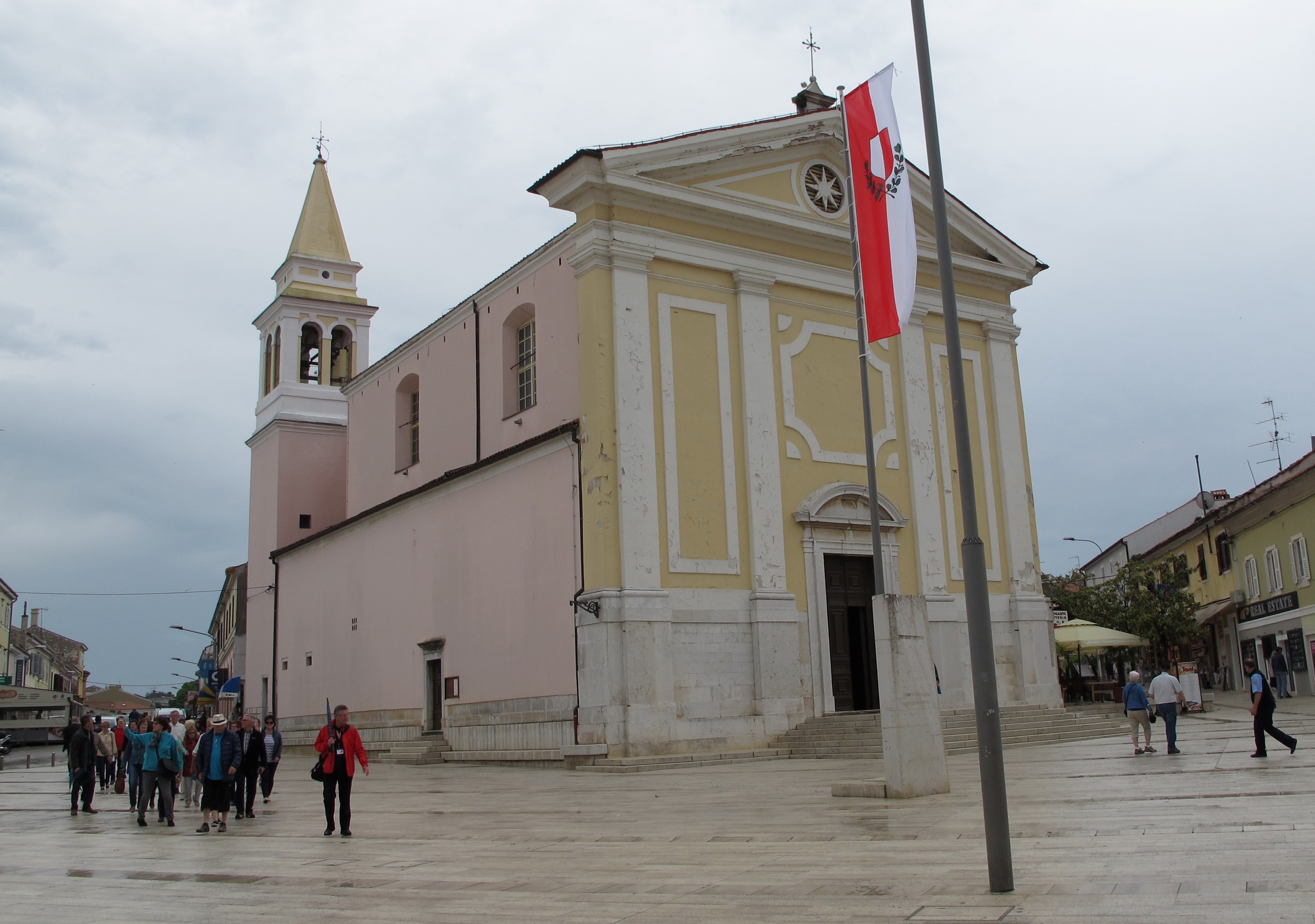 Church of Our Lady of Angel 1746